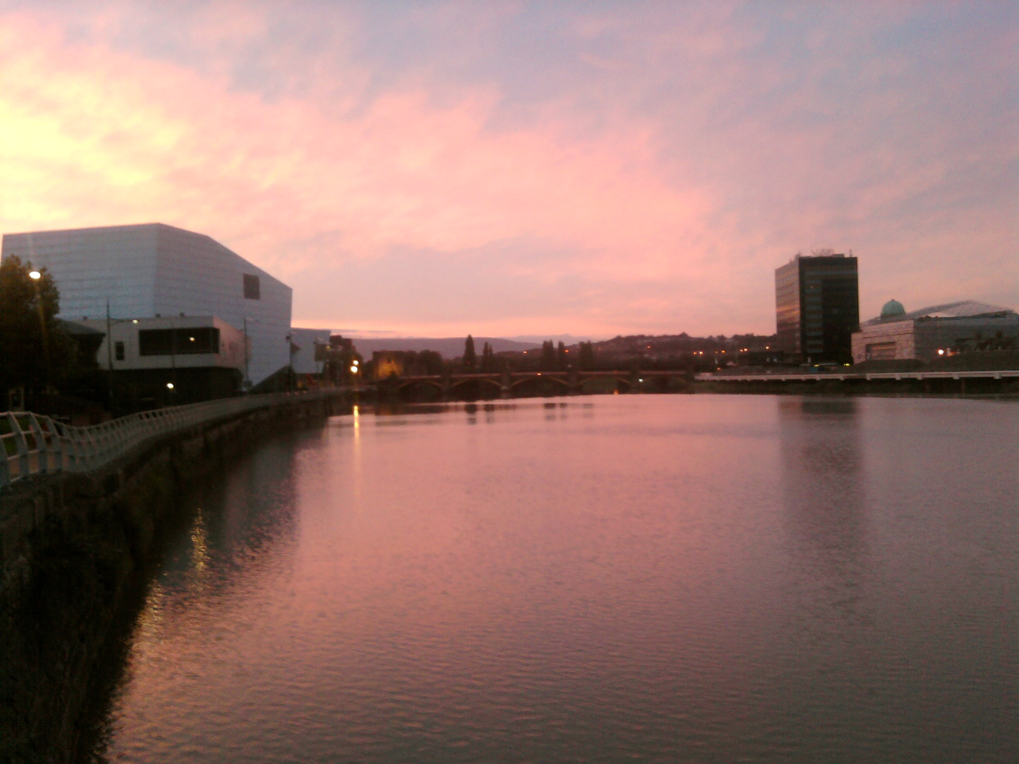 A beautiful sunset over the River Usk in Newport, South Wales.